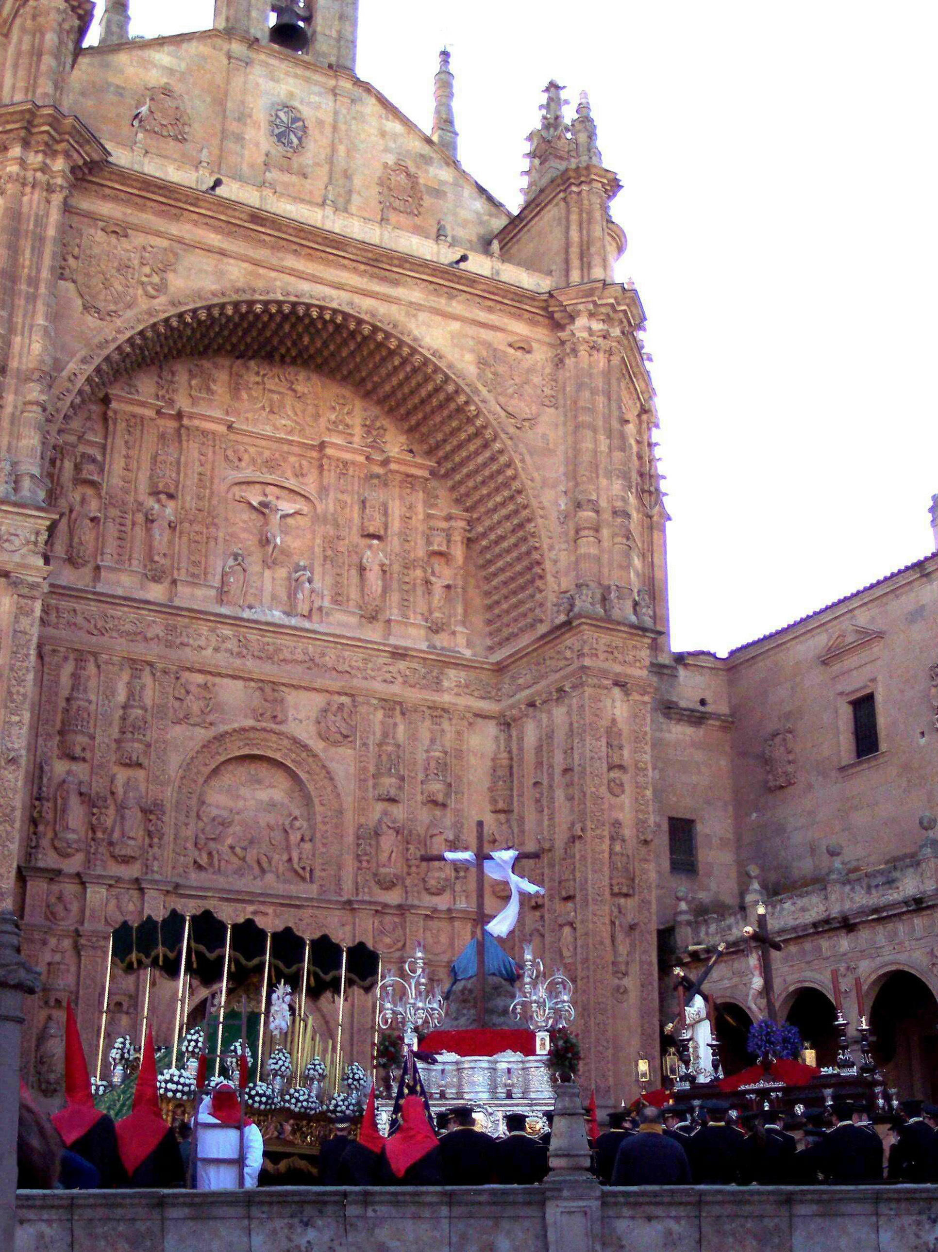 Farewell of the "pasos" of the Dominican Brotherhood at San Esteban's atrium, Salamanca, Spain.